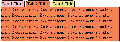 Colored XForms Horizontal Tab Menu for Cookbook Example